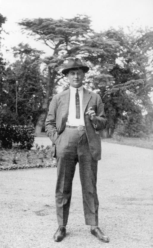 Eljas Erkko in London.